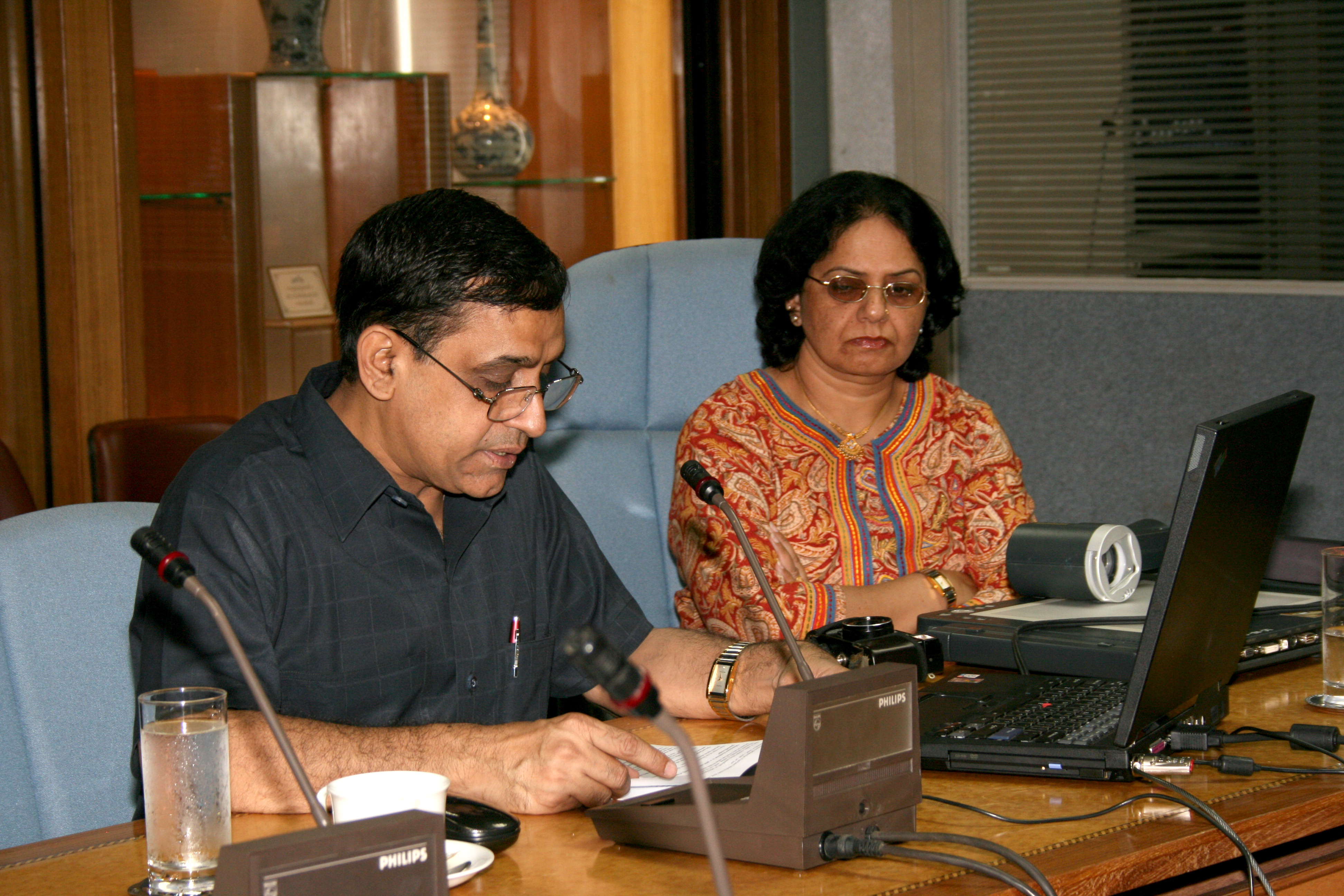 Dr Kumar